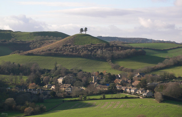 Colmer's Hill above Symondsbury This well known landmark viewable for miles.